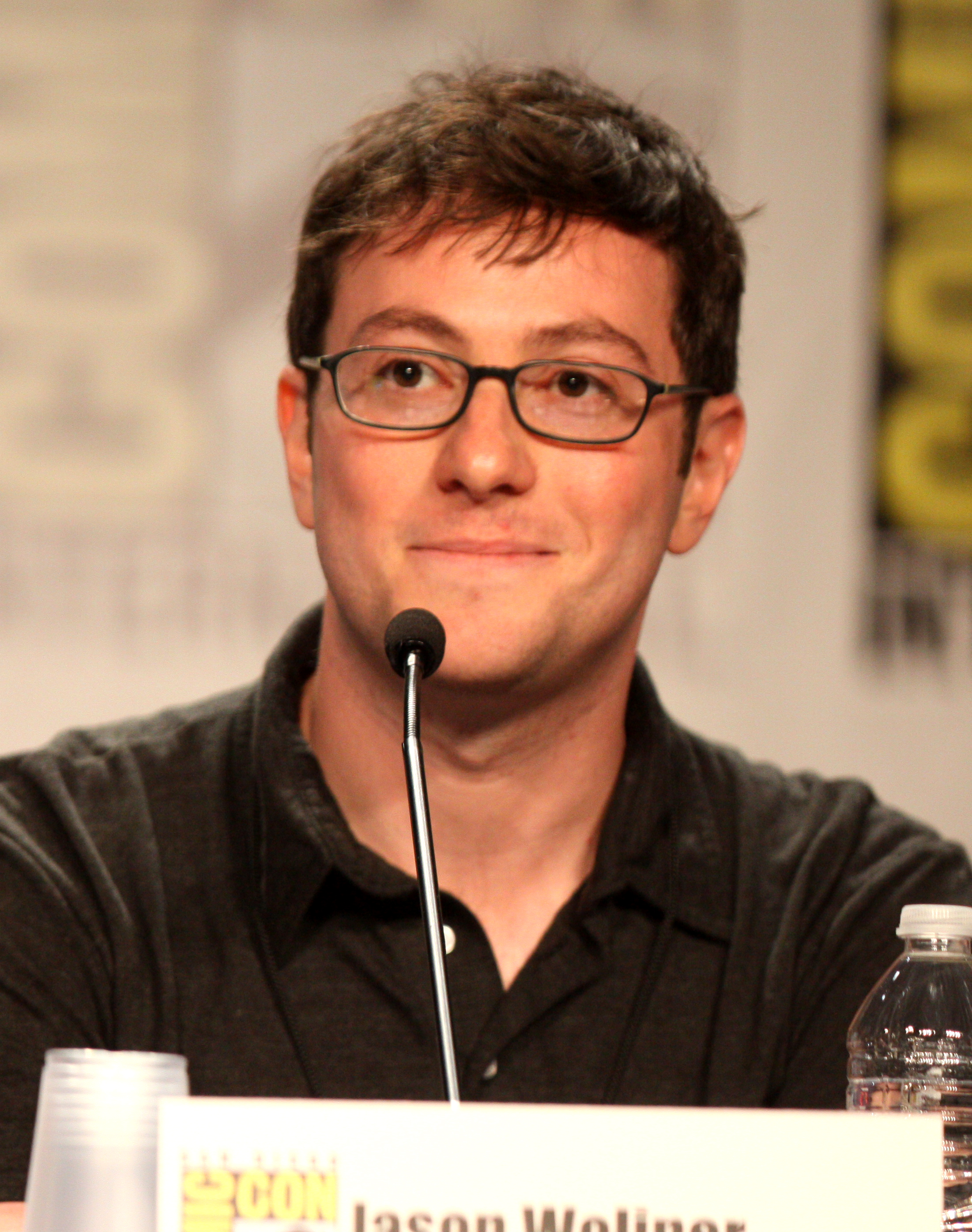 Jason Woliner at the 2011 Comic Con in San Diego